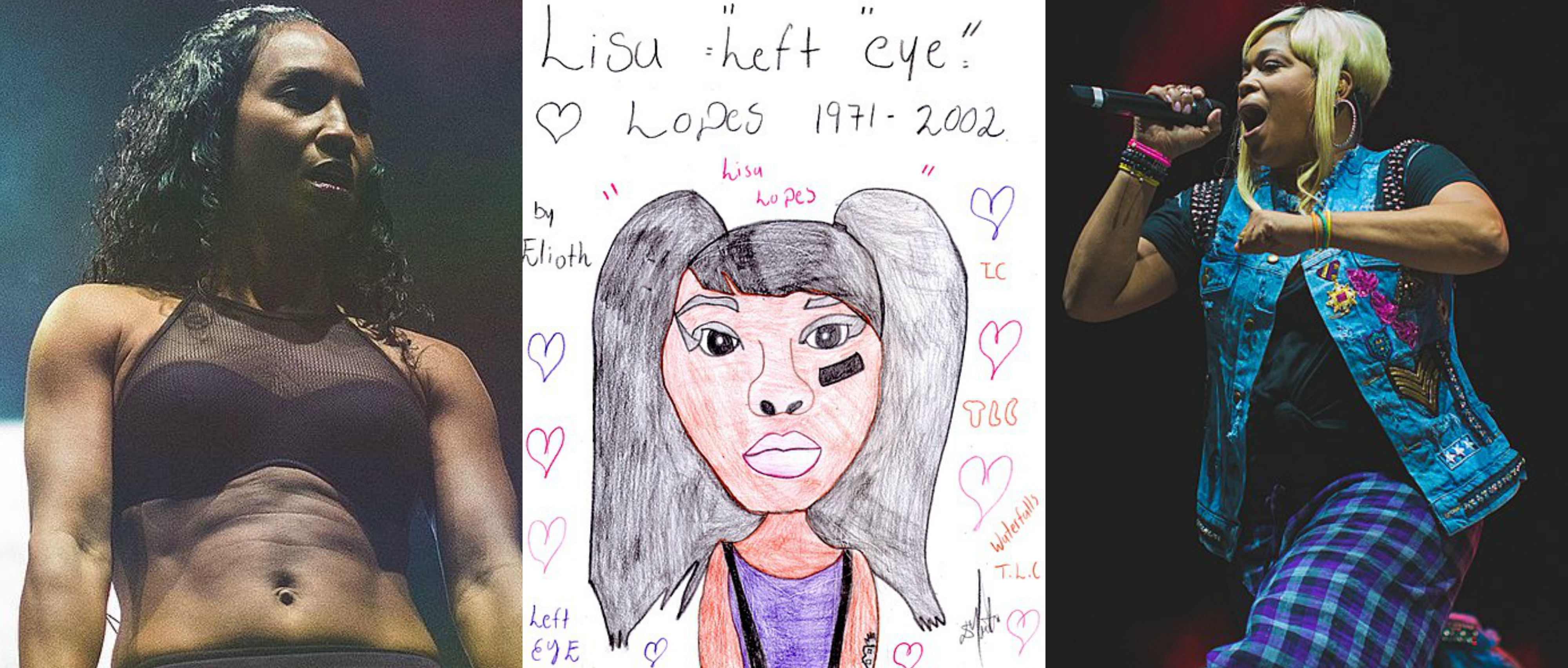 TLC members: Chilli, Lisa Lopes (on drawing) and T-Boz.